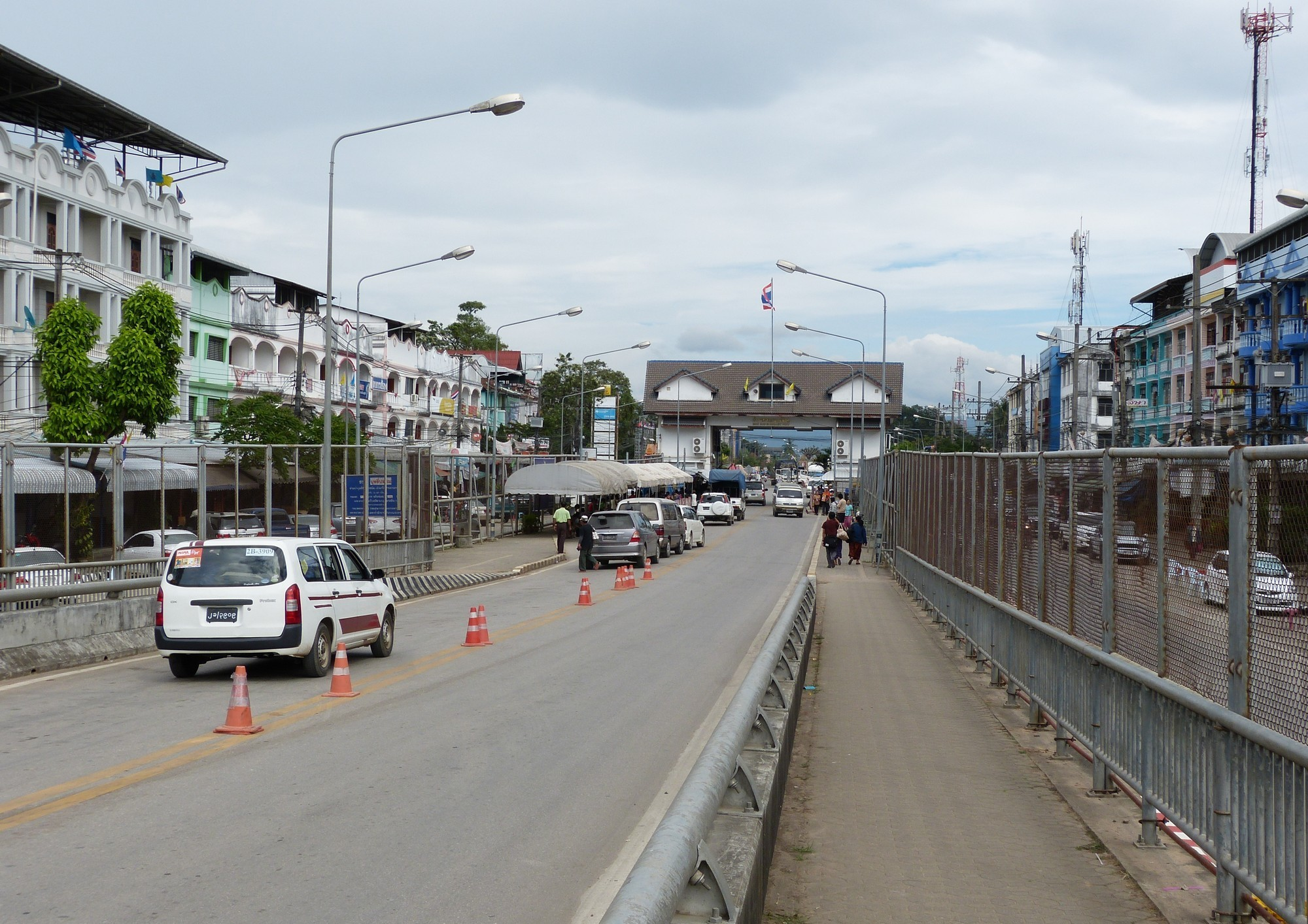 Myawaddy, Myanmar (Burma)